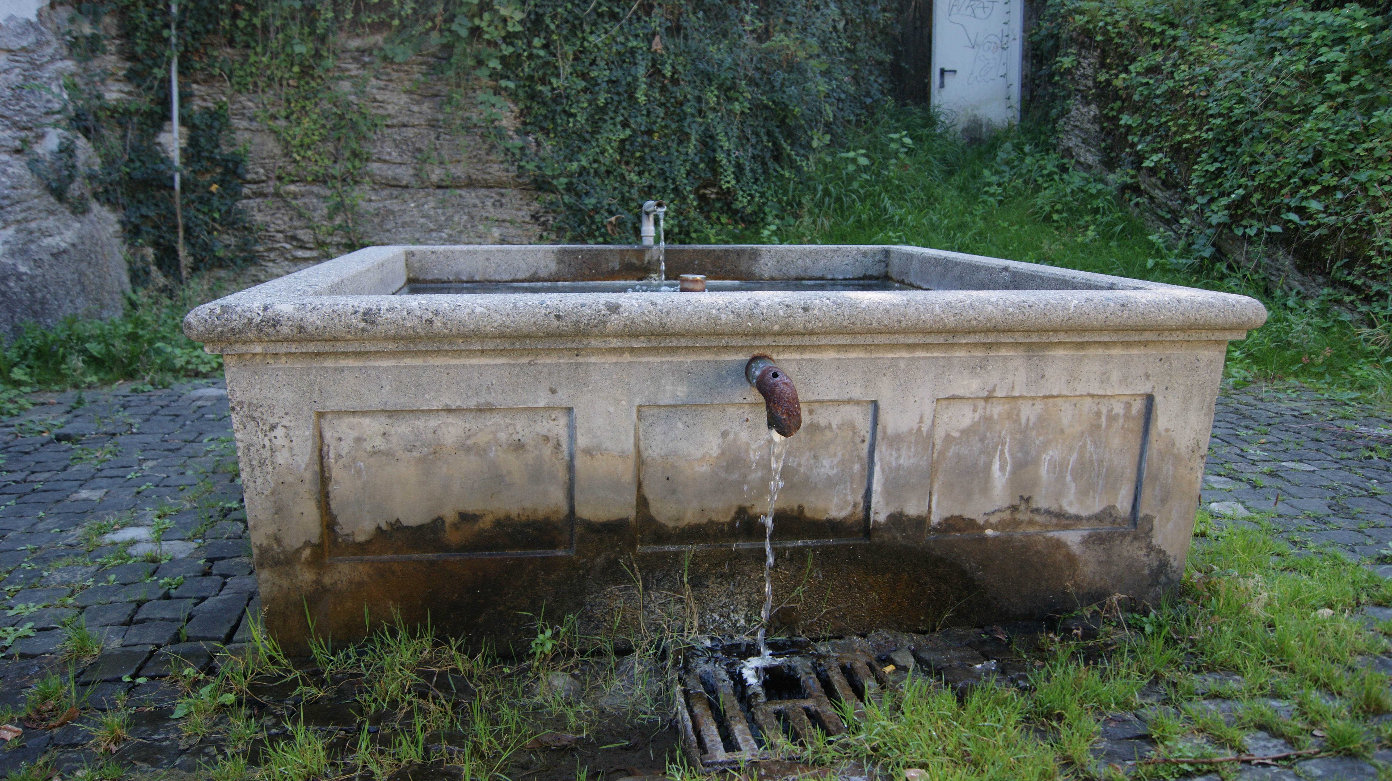 Local centre "Schwefel" in Hohenems, Vorarlberg, Austria. Fountain of the sulfur source (medicinal water).